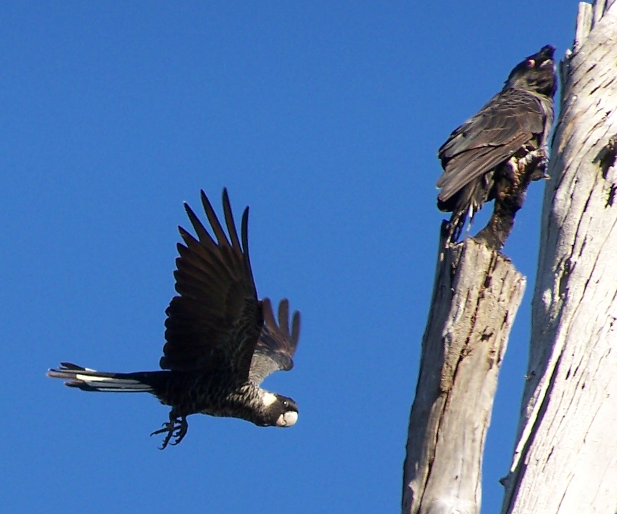 The bird is Calyptorhynchus latirostris, Carnaby Cockatoo , short-billed black cockatoo, photo taken in Beeliar Regional Park near Bibra Lake WA